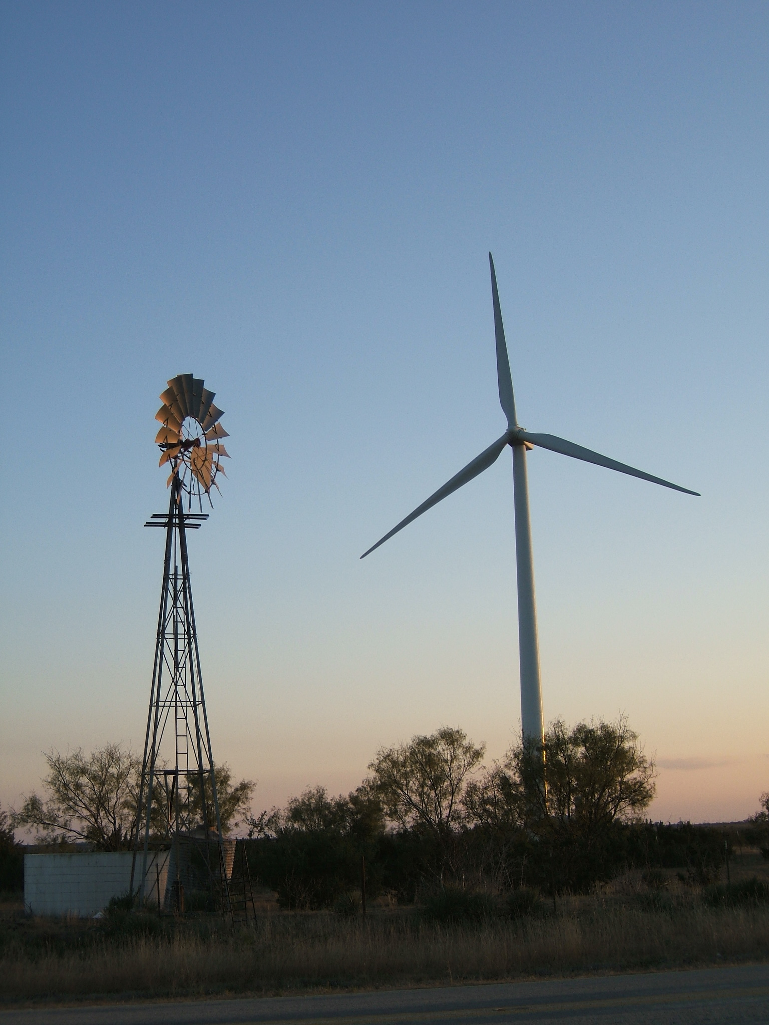 Modern wind turbine and an old water-pumping windmill in Roscoe, Texas.